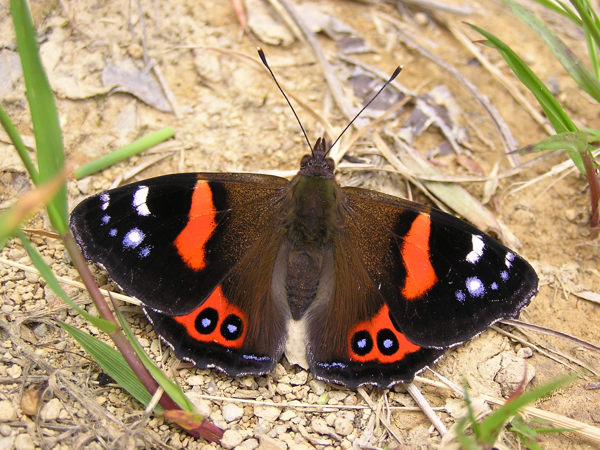 NZ Red Admiral Butterfly in Wellington, New Zealand Māori: Kahukura